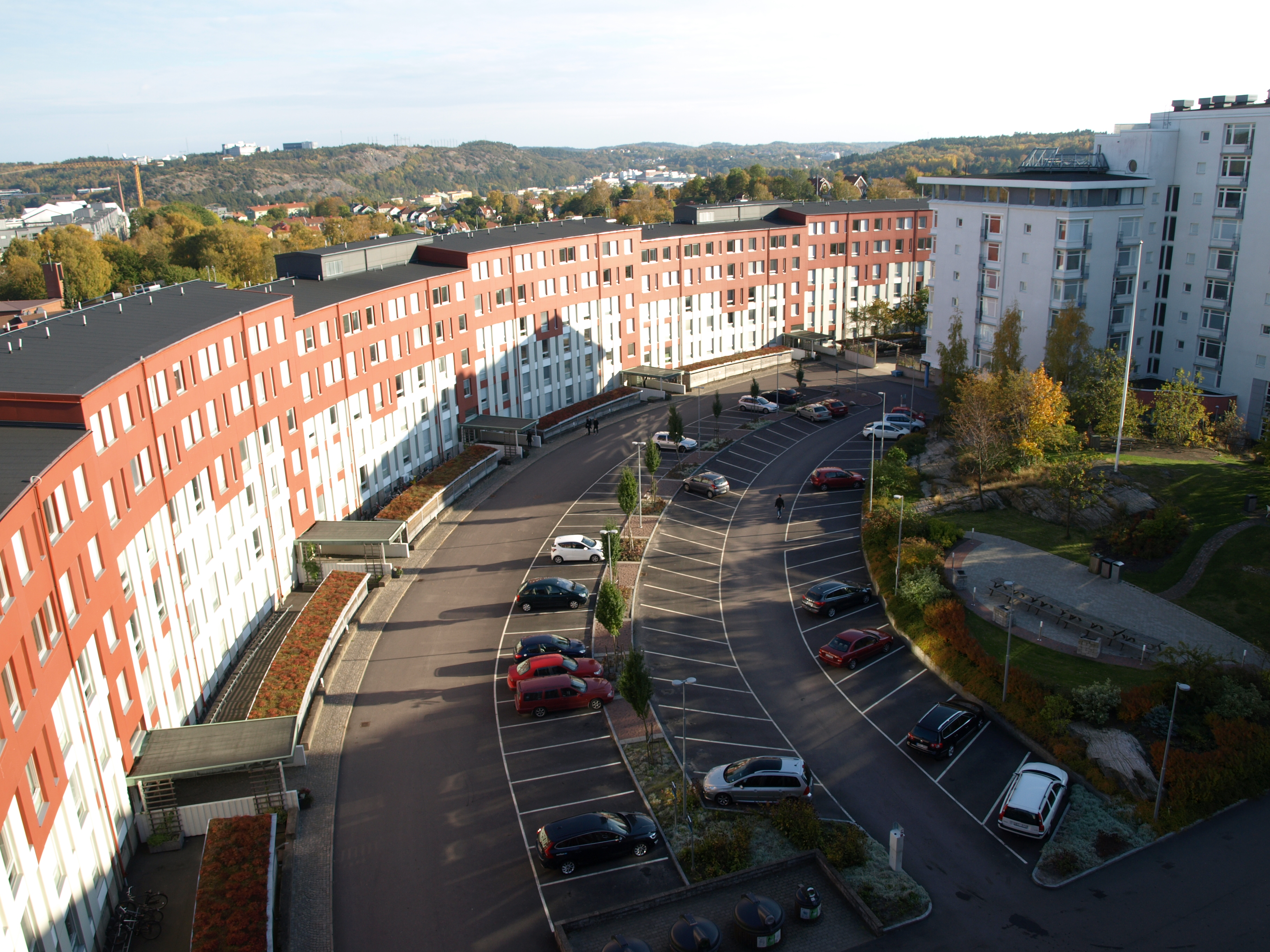 The student housing "Emilsborg" in Gothenburg, Sweden